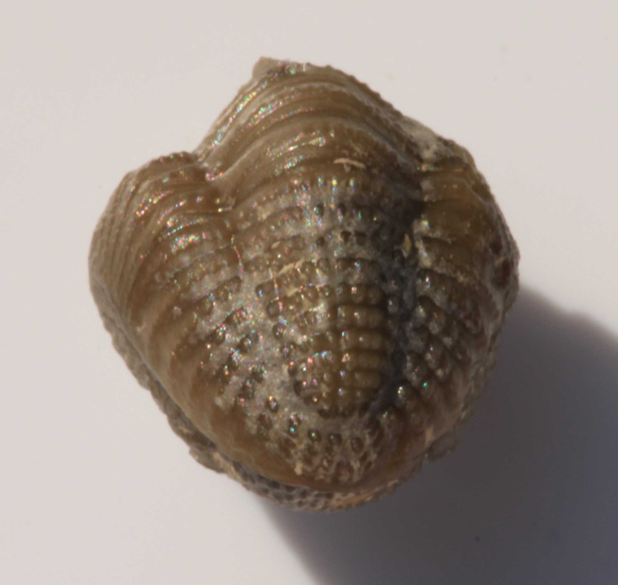 A proetid trilobite Ameropiltonia lauradanae, Order Proetida, Family Proetidae, roled up for protection, view of the pygidium, 12mm from the cephalic margin to the top of the 3rd segment of the thoracial axis, from the Chouteau Formation, Saline County Missouri, USA, Carboniferous/Lower Missisippian (Tournaisian/Kinderhookian)